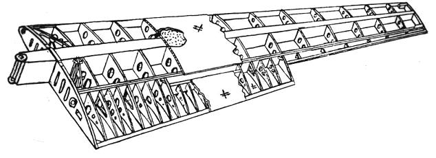 Glider wing with one spar